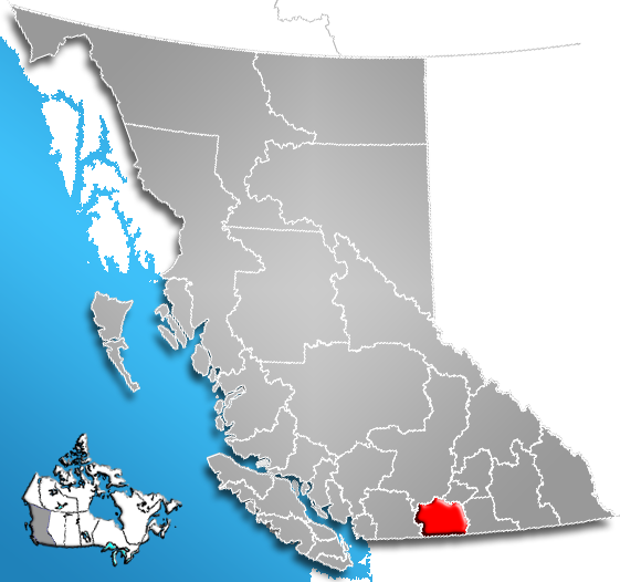 Location of Regional District of Okanagan-Similkameen, British Columbia